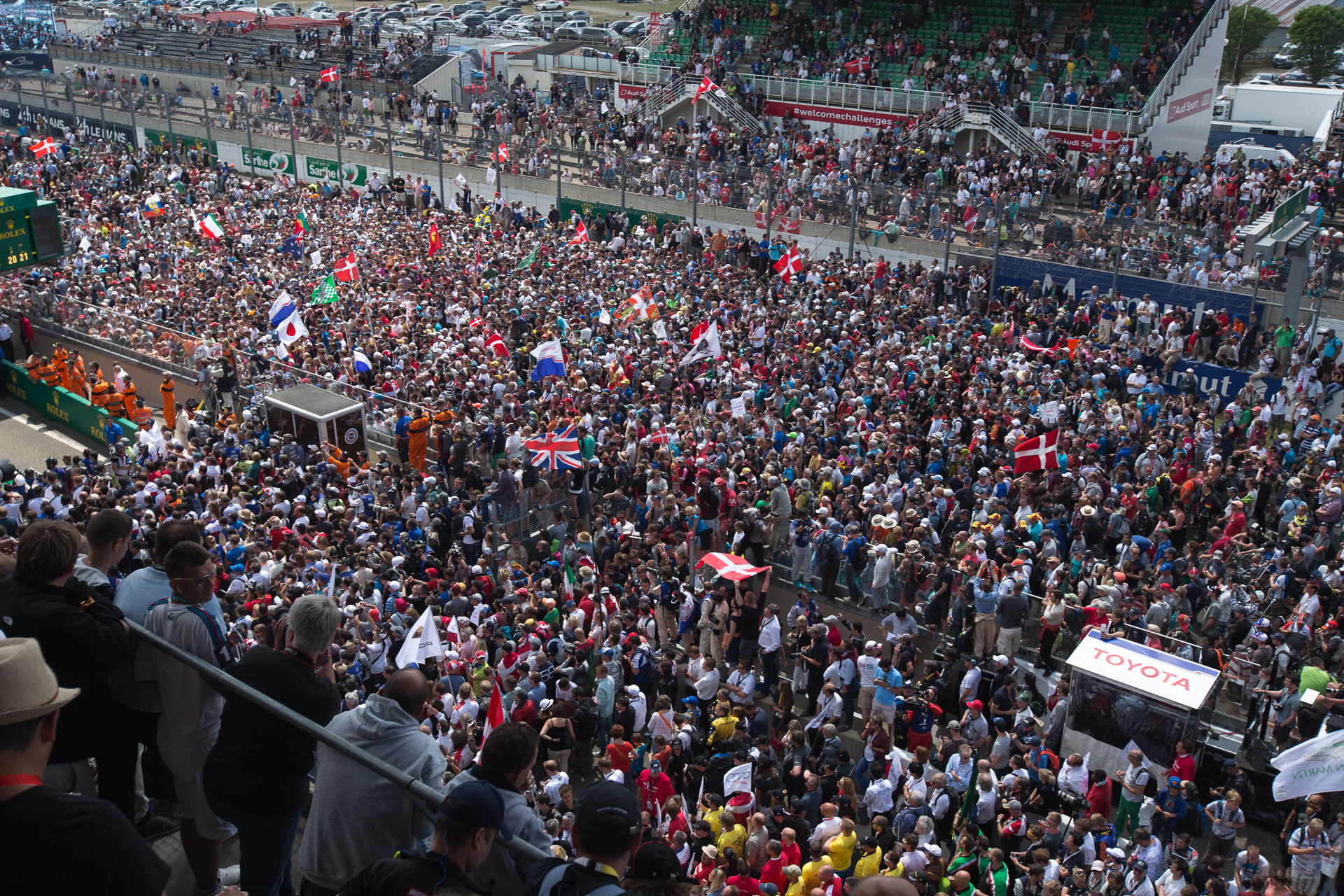 The crowd invading the circuit during the podium ceremonies at the 2014 24 Hours of Le Mans